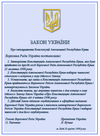 Crimea-constitution-low